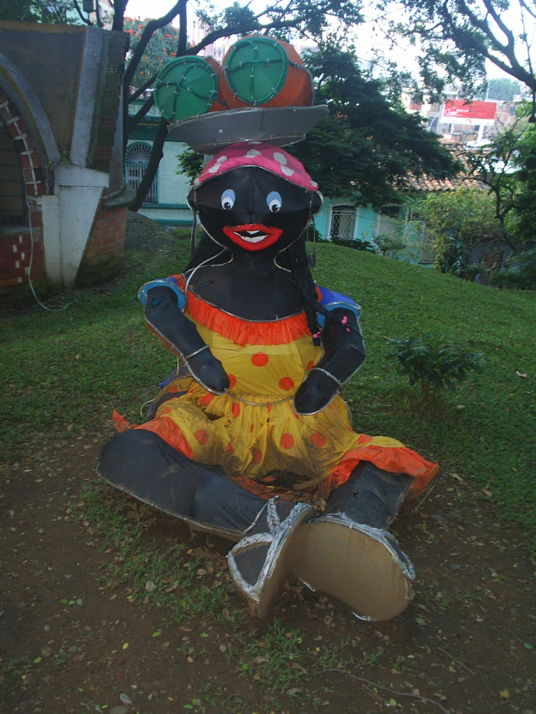 Figure of black women